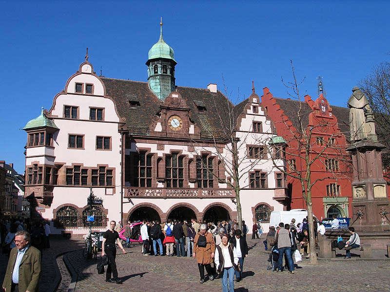 New and old town hall, Freiburg, Germany